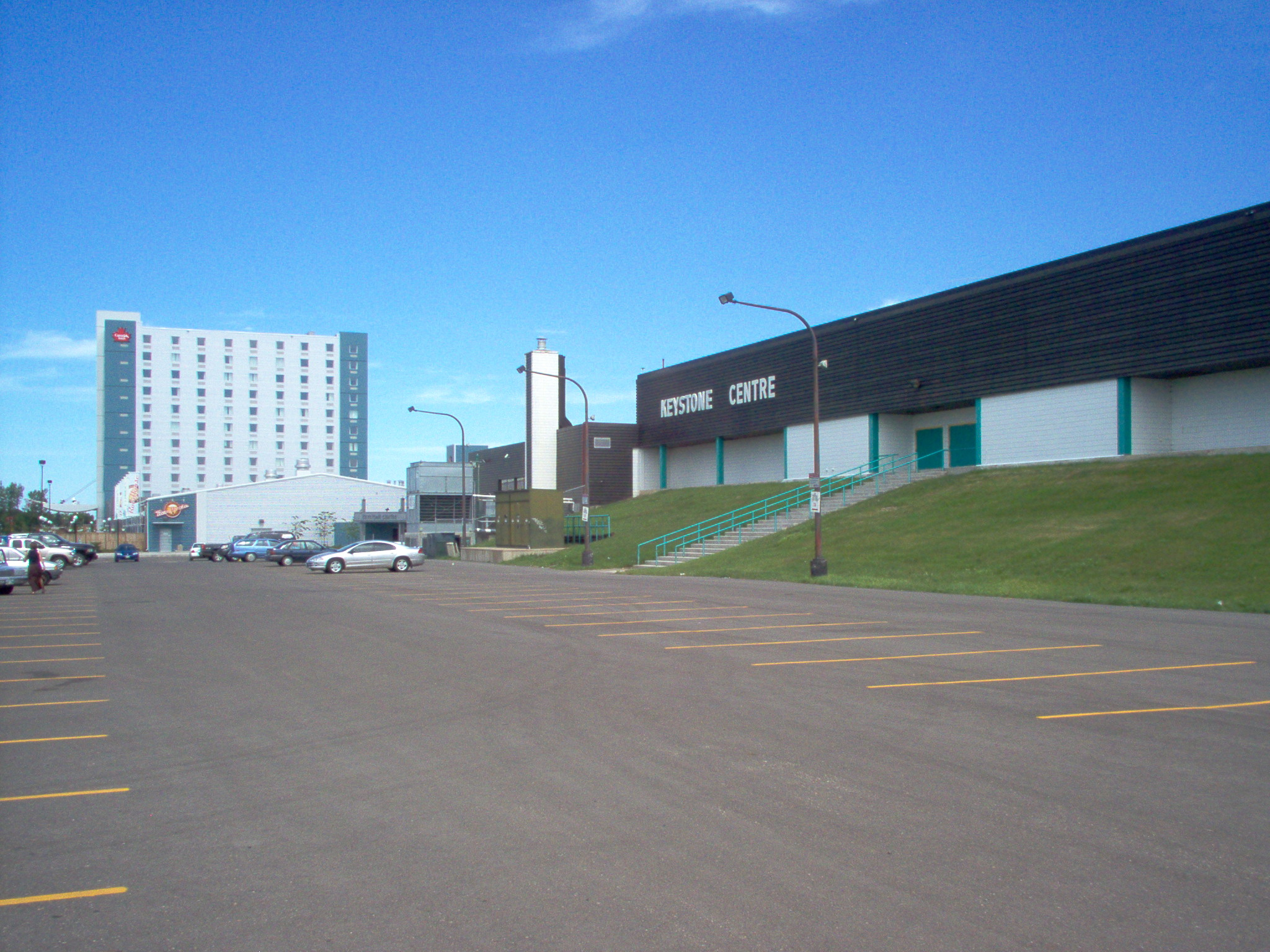 Image: The Keystone Centre in Brandon, MB, Canada. The arena itself has since been renamed Westman Communications Group Place.